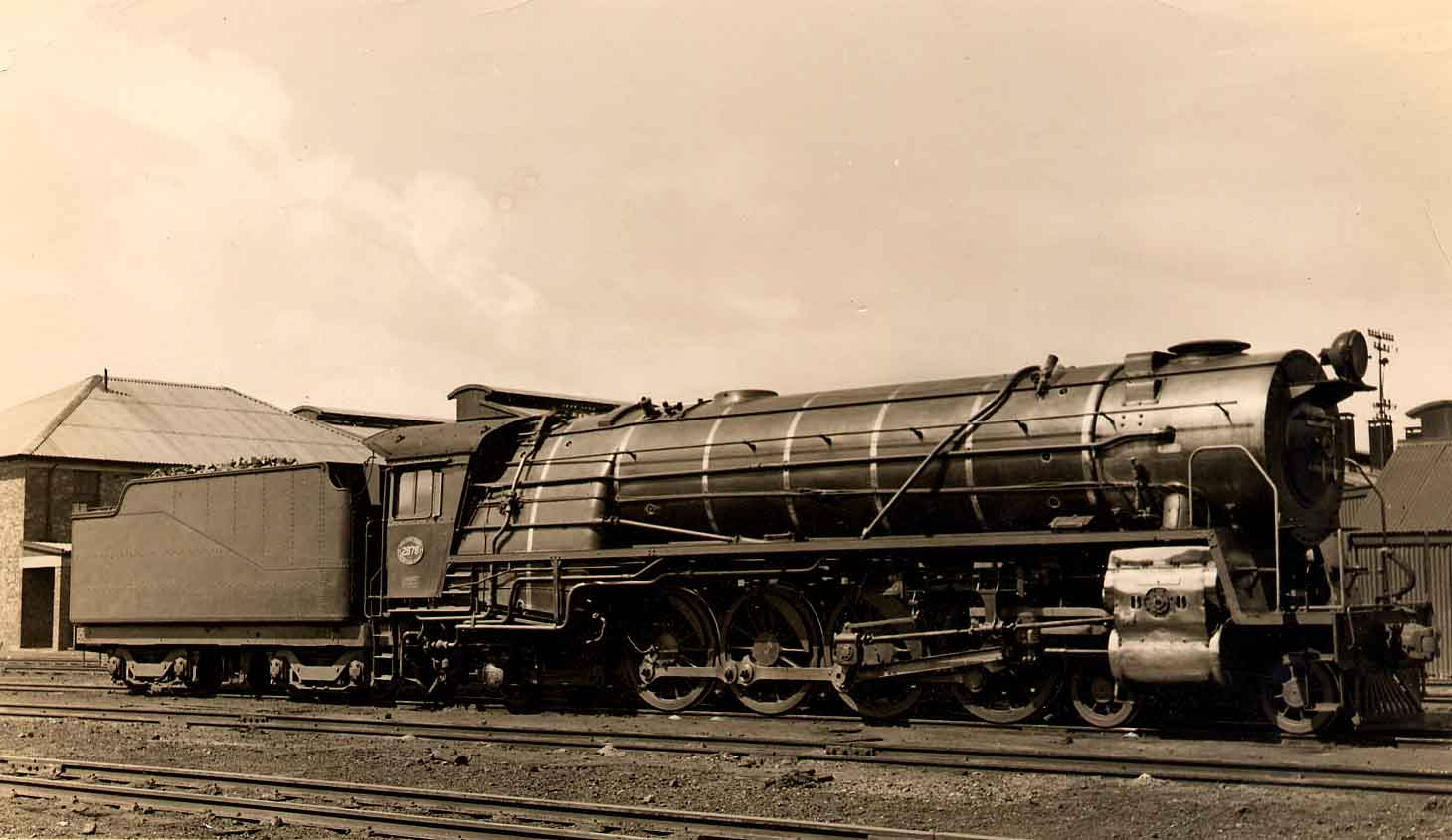 Class 15E 2878 (4-8-2)Location: Henschel built 2878 at Paardeneiland, Cape Town